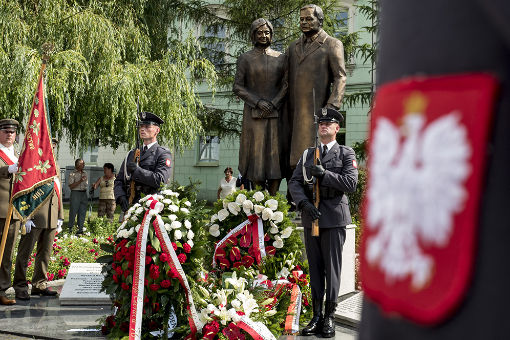 Monument to the President of Poland prof. Lech Kaczyński and First Lady Maria Kaczyńska in Radom. 2016.06.25 Radom. Prime Minister Beata Szydło participated today in the ceremonies commemorating the Radom events of 1976. During the celebrations, the heroes of those events were honored and state decorations were awarded. At the end, the head laid a wreath at the monument to Maria and Lech Kaczyński.